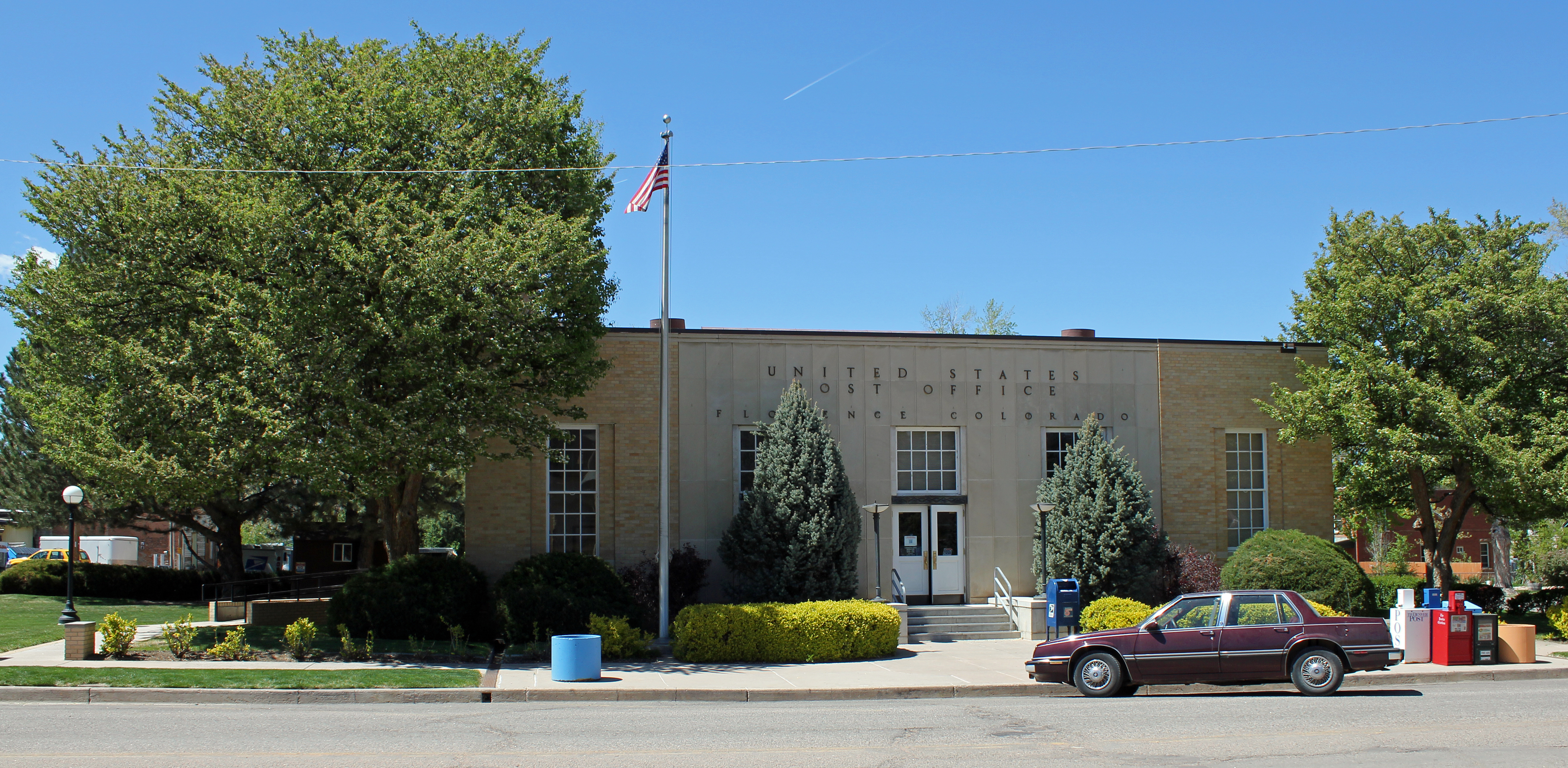 The United States Post Office in Florence, Colorado, located at 121 North Pikes Peak Street. The property is listed on the National Register of Historic Places.